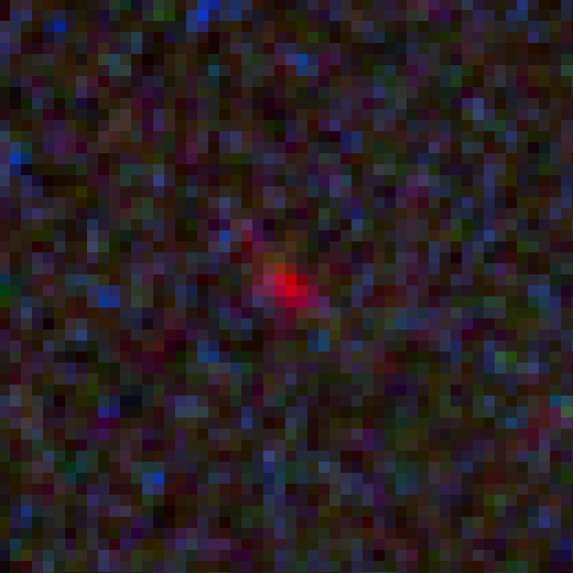 Zoom-in of Hubble Site Telescope photograph of high-redshift galaxy candidate MACS1149-JD.